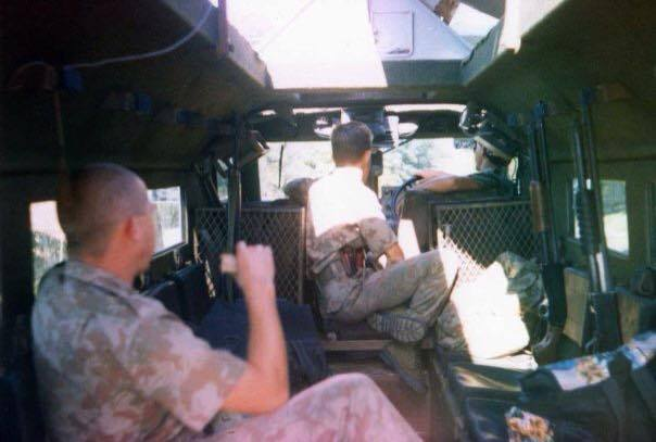 Inside of an ABS-ISD police Casspir (about 1993)